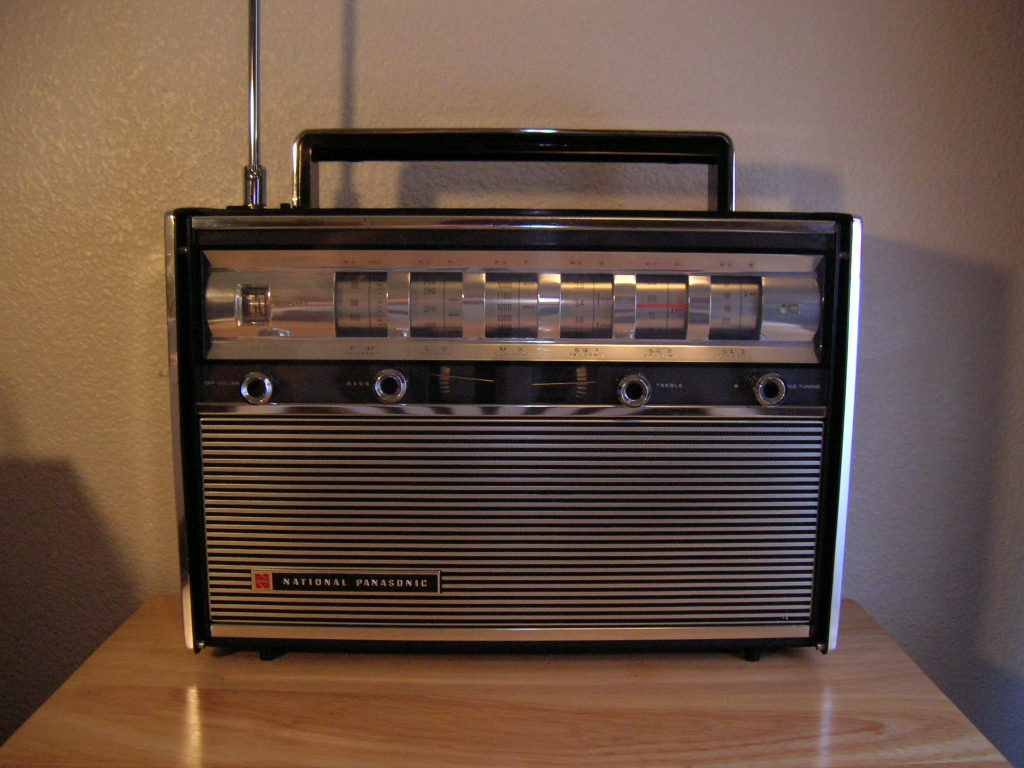 It is my own work. I release into public domain.